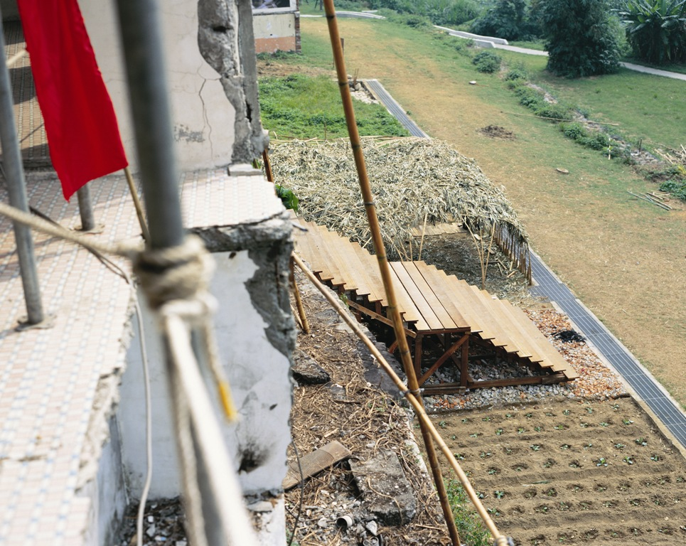 Marco Casagrande: Organic Layer / Treasure Hill, 2003